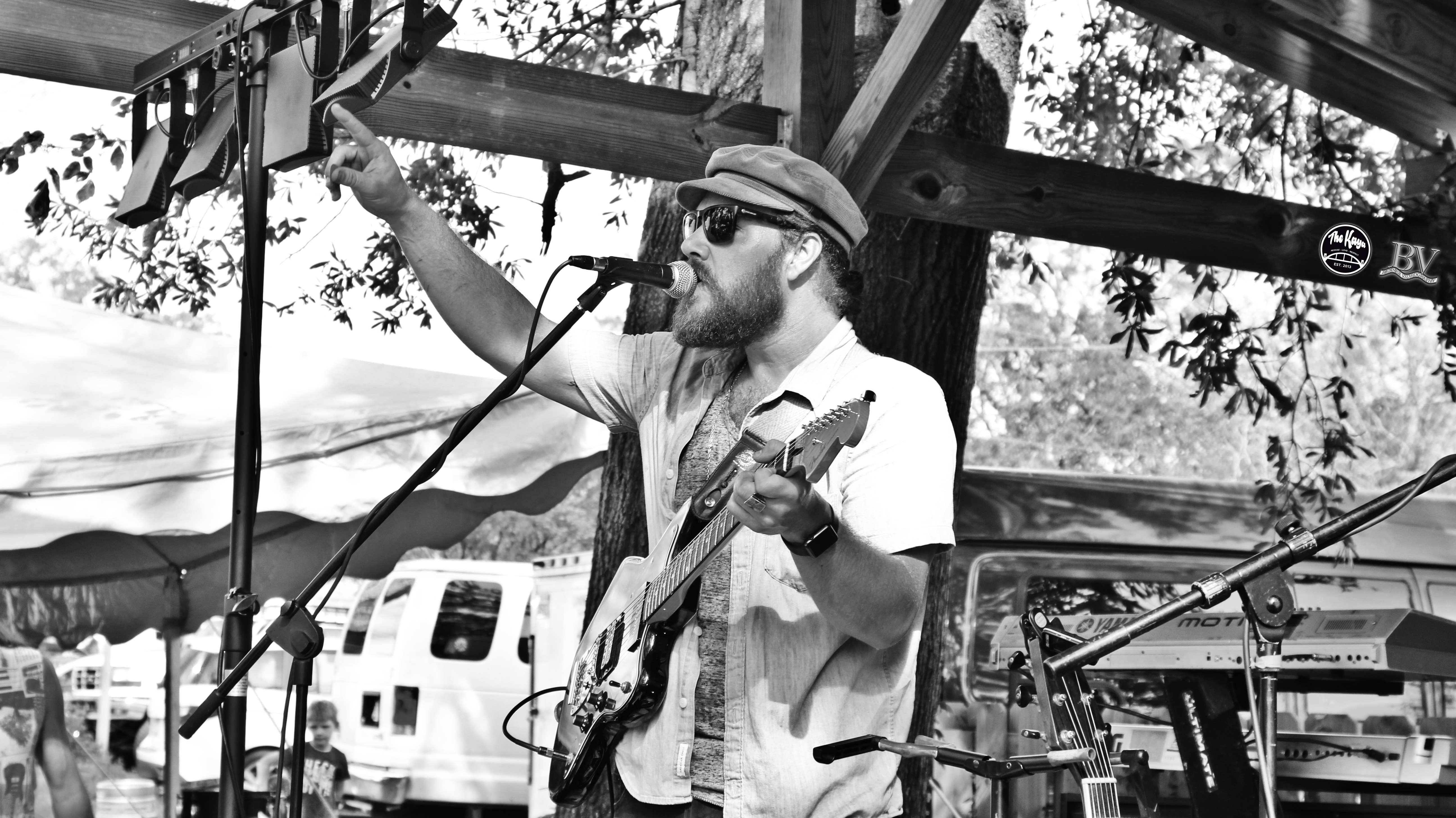 Travis Shallow at Hurricane Florence Benefit Show 2018